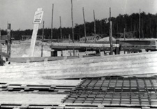 University Library in Toruń, general view of the future pillars of the edifice